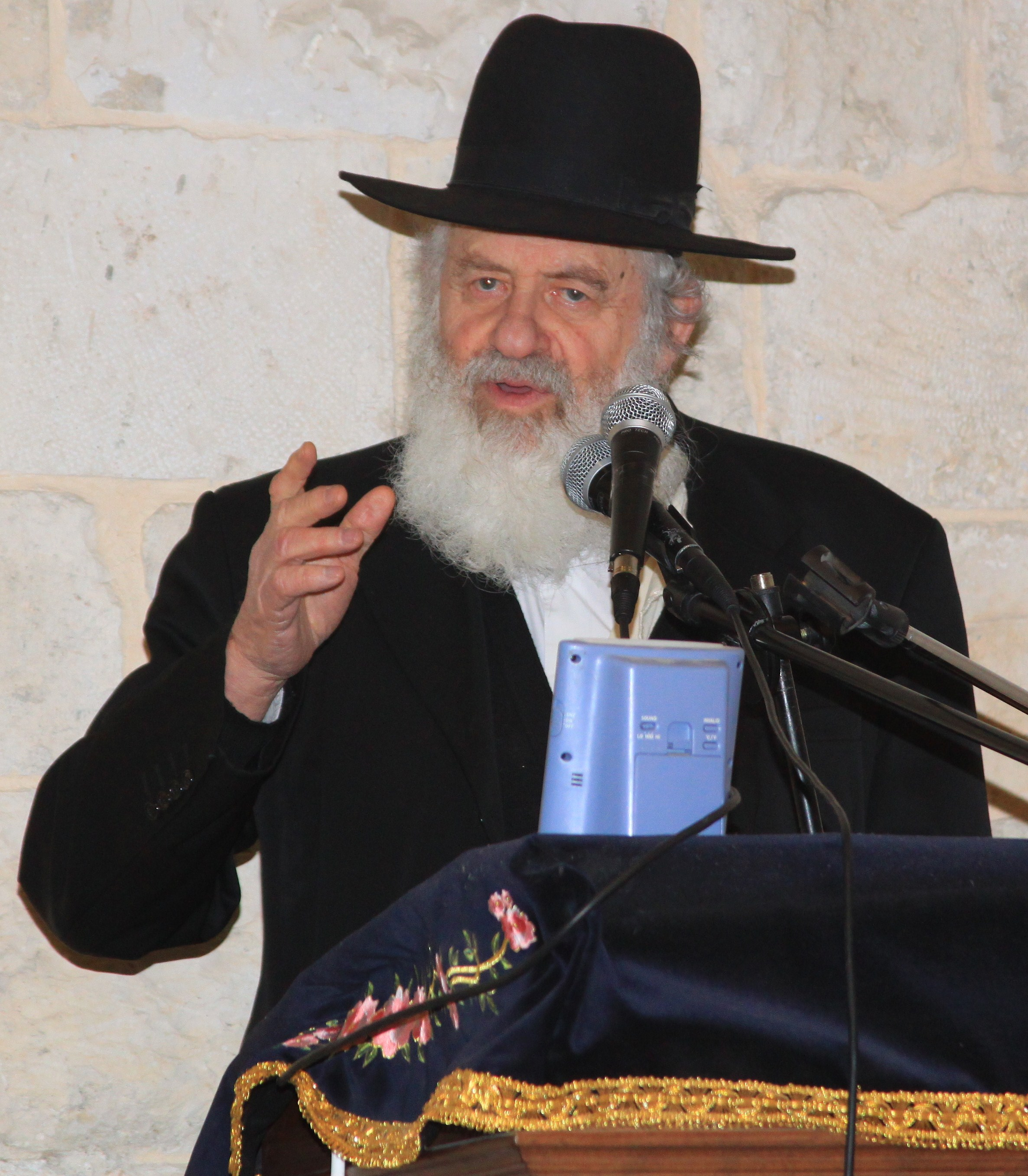 oori sohr